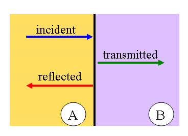 en:/Images